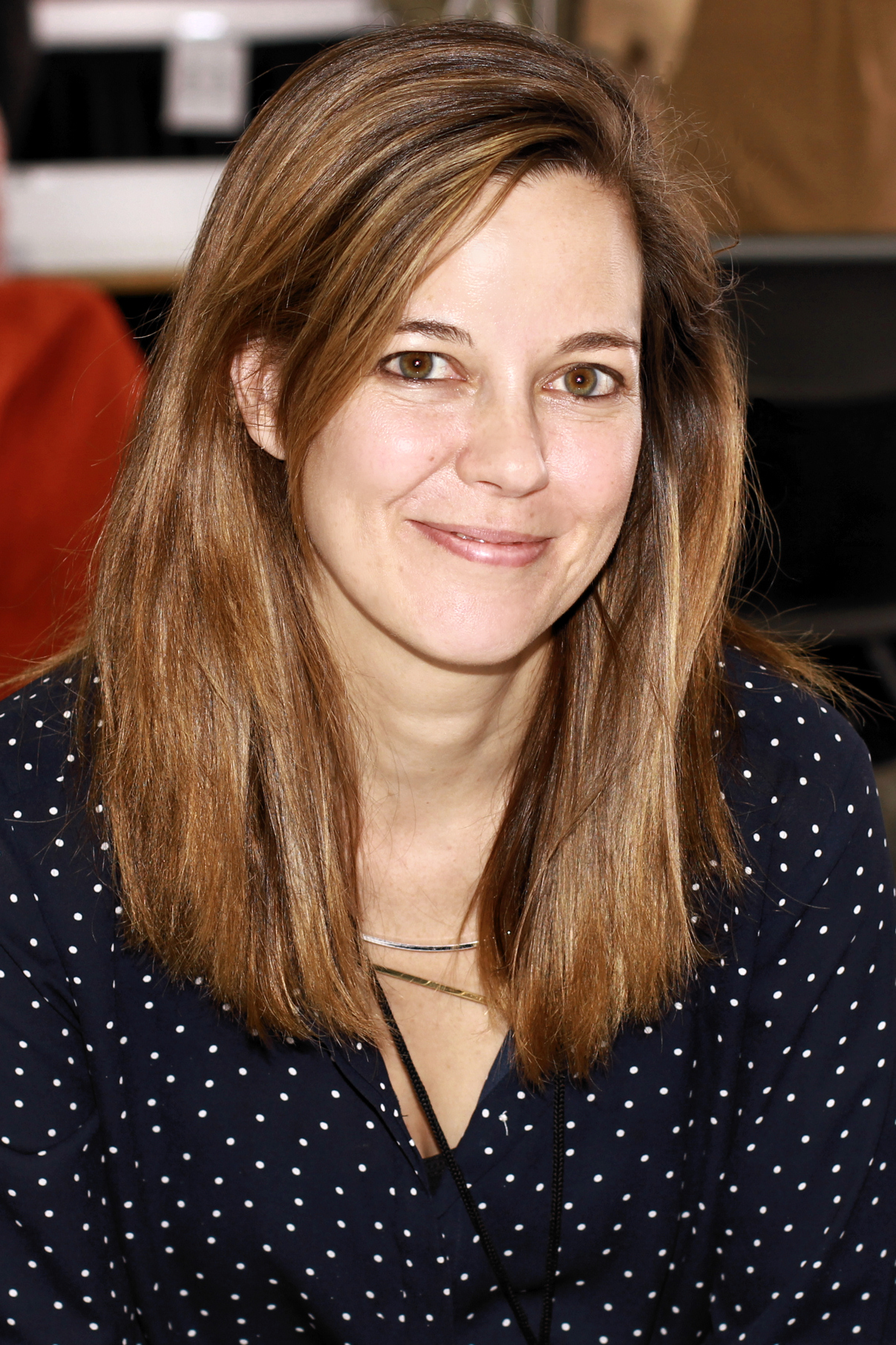 Author Alix Ohlin at the 2019 Texas Book Festival in Austin, Texas, United States.